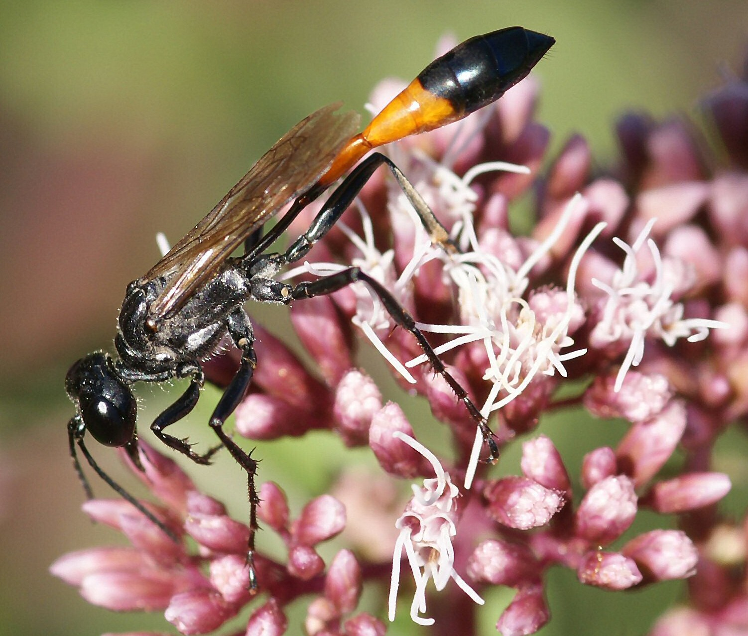 Cropped version of File:Sand Wasp Ammophila sabulosa on Hemp Agrimony Eupatorium cannabinum.JPG